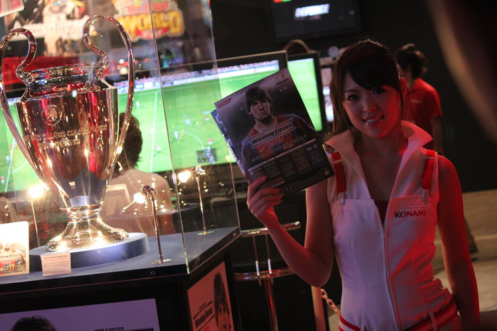 Mai Onozeki, promotional model of Winning Eleven 2011 by Konami at Tokyo Game Show 2010.